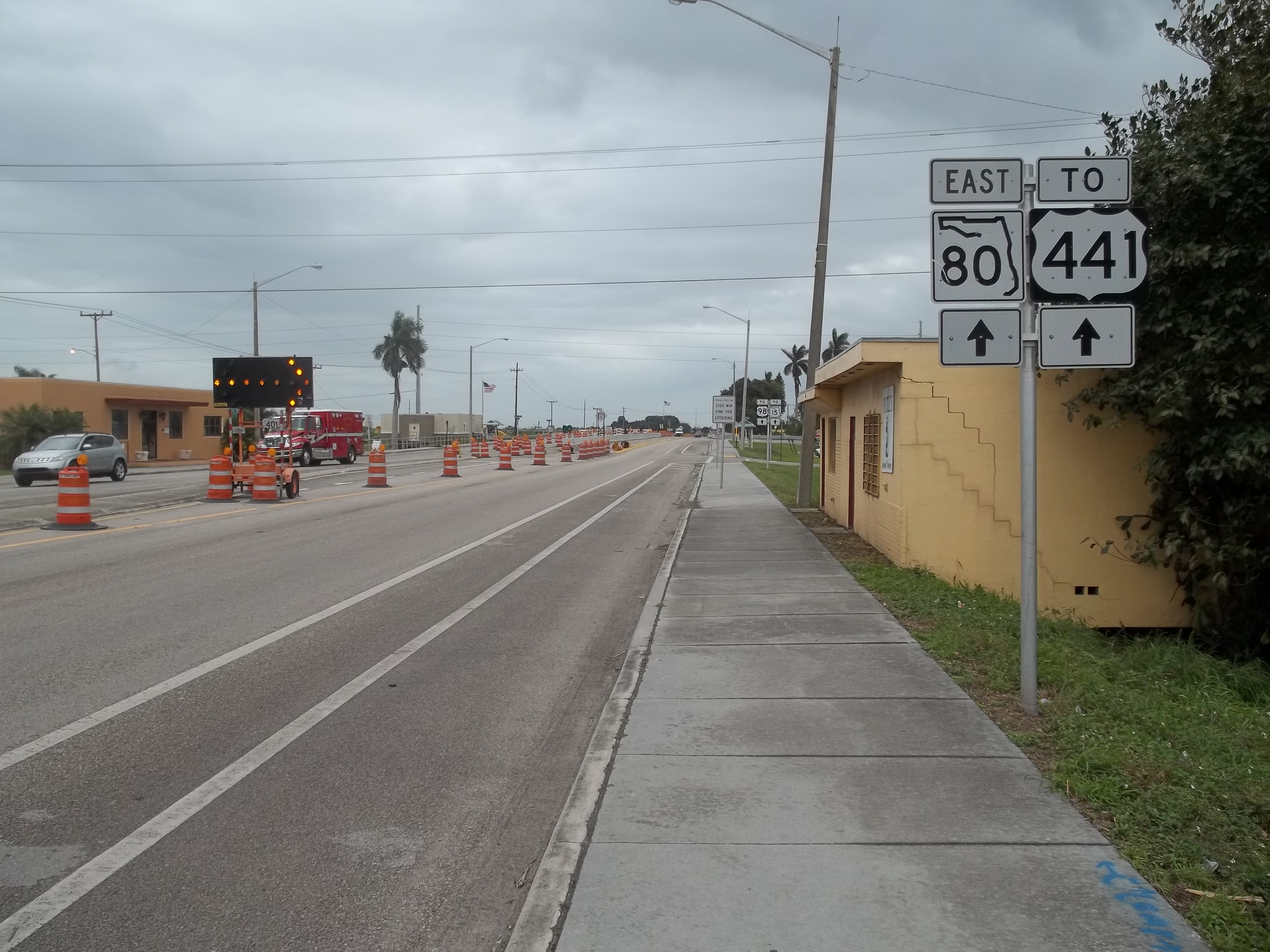 South Bay, Florida: SR 80, looking east from near the US 27 split